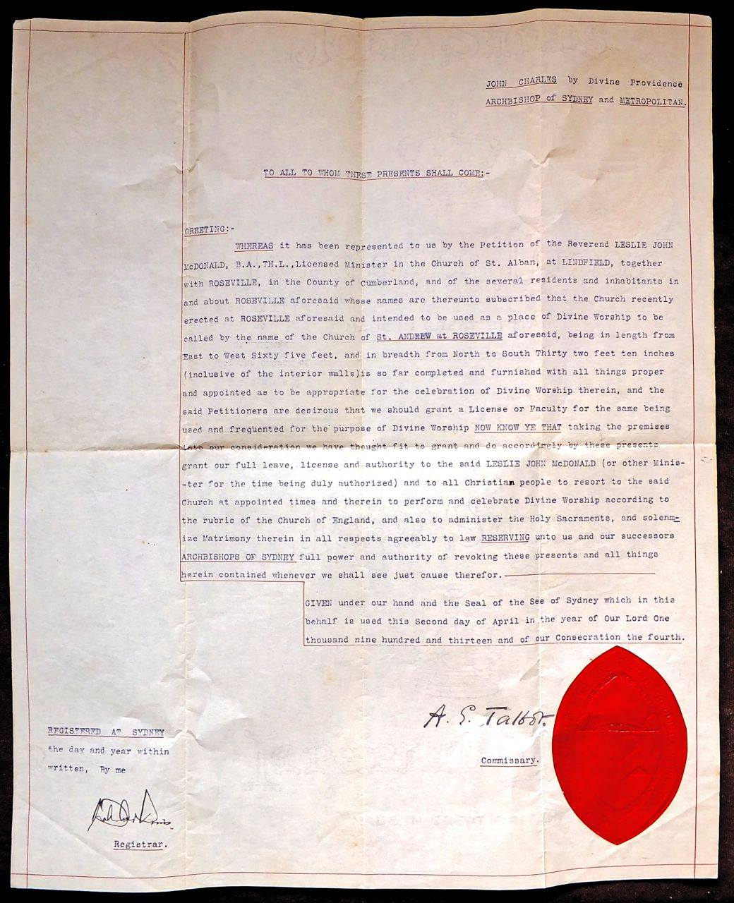 License from Archbishop John Wright (Archbishop of Sydney) to worship at St Andrew's, Roseville.